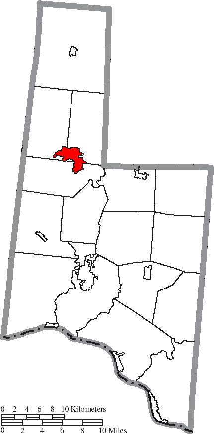 Map of the municipal and township boundaries of Brown County, Ohio, United States, as of the 2000 census, with the location of the village of Mount Orab highlighted. Township borders are shown only in unincorporated areas in order to differentiate incorporated and unincorporated areas more clearly.